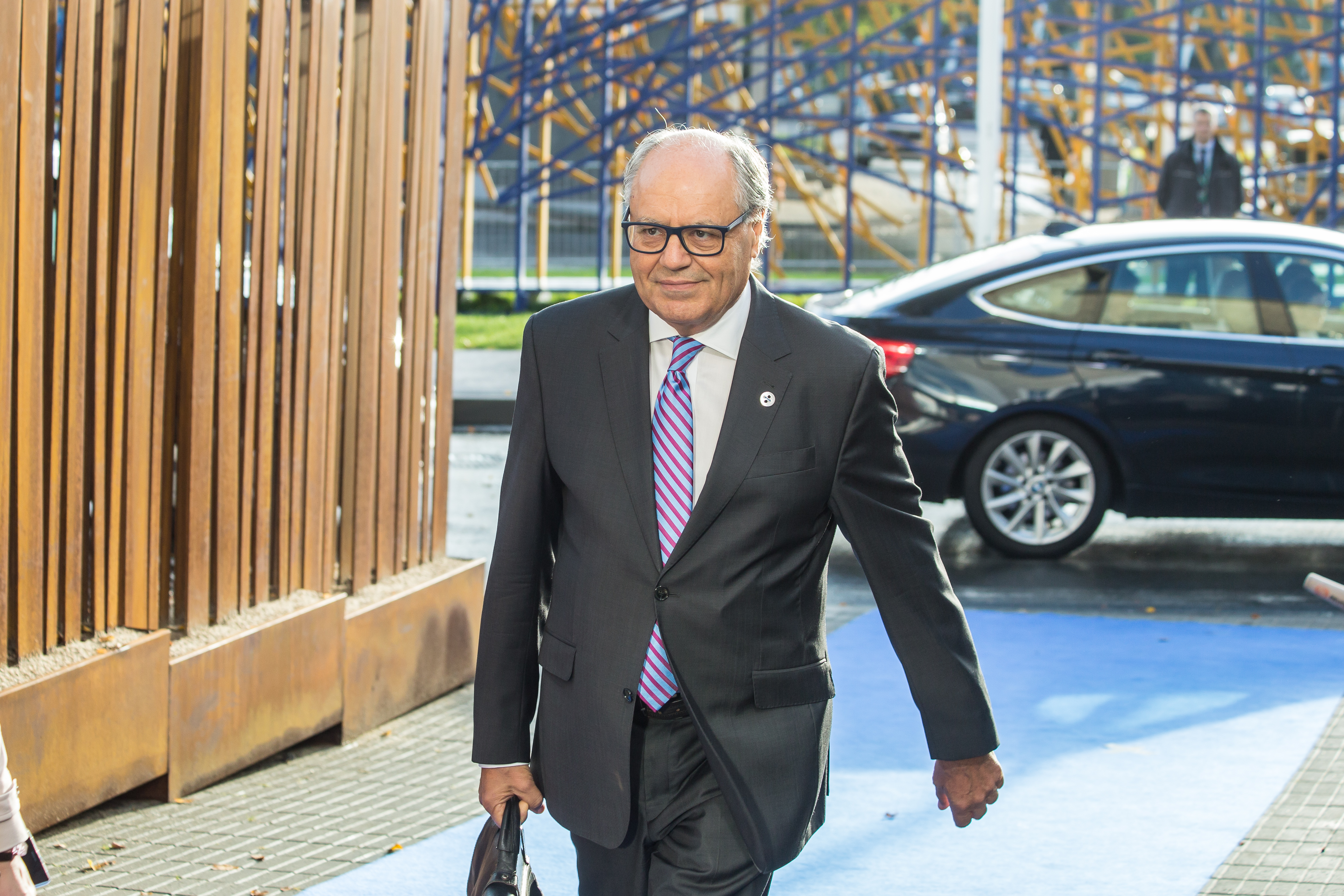 Edward Scicluna, Minister, Ministry of Finance, Malta Photo: Aron Urb (EU2017EE)